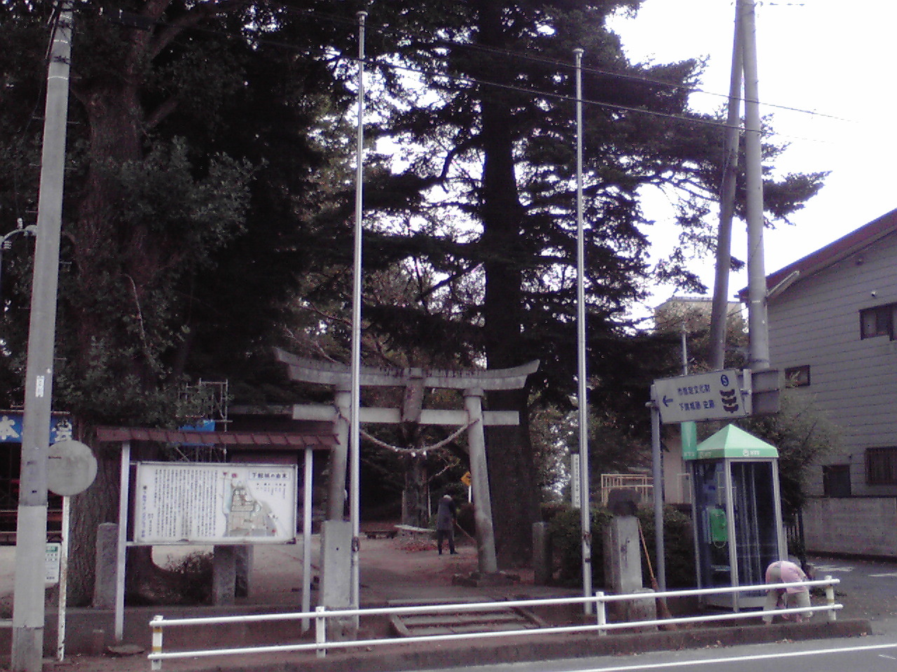 This was Shimodate castle.Now, it is used as a shinto shrine.